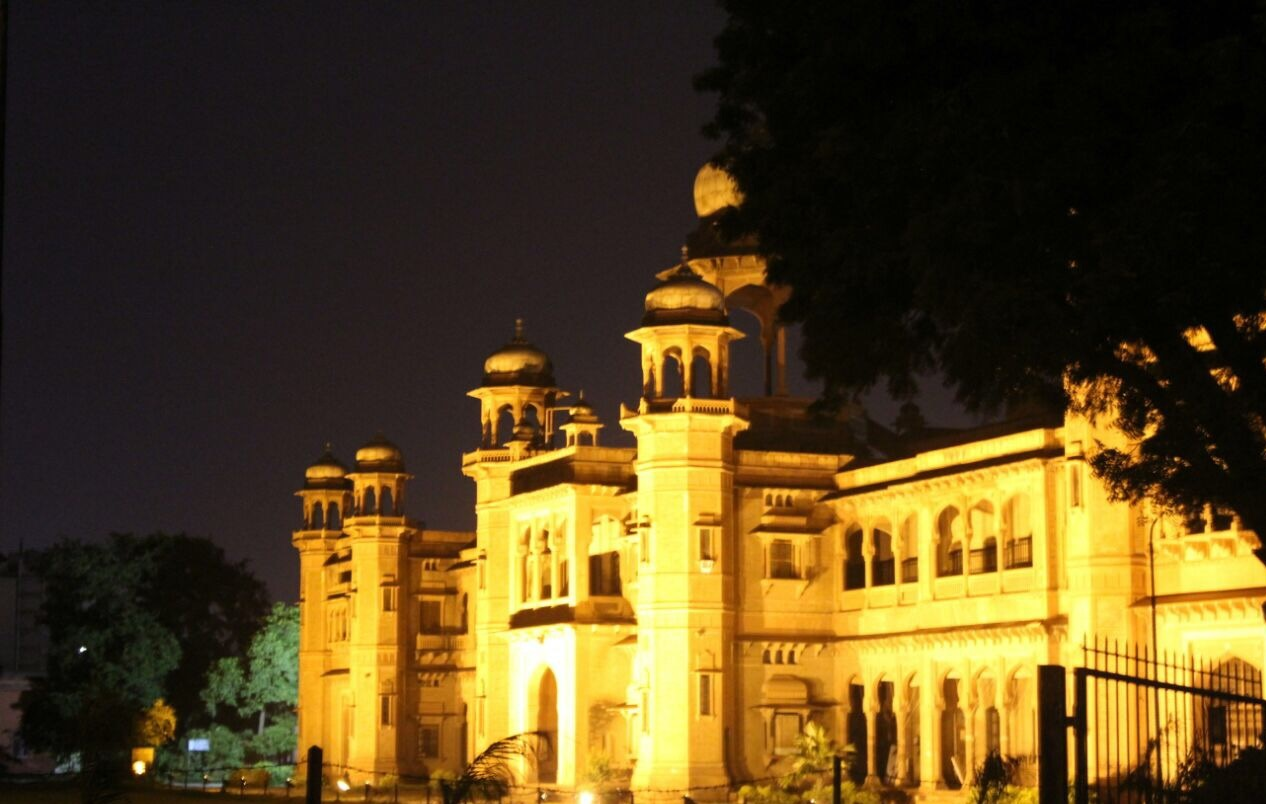 PC abhay benjamin